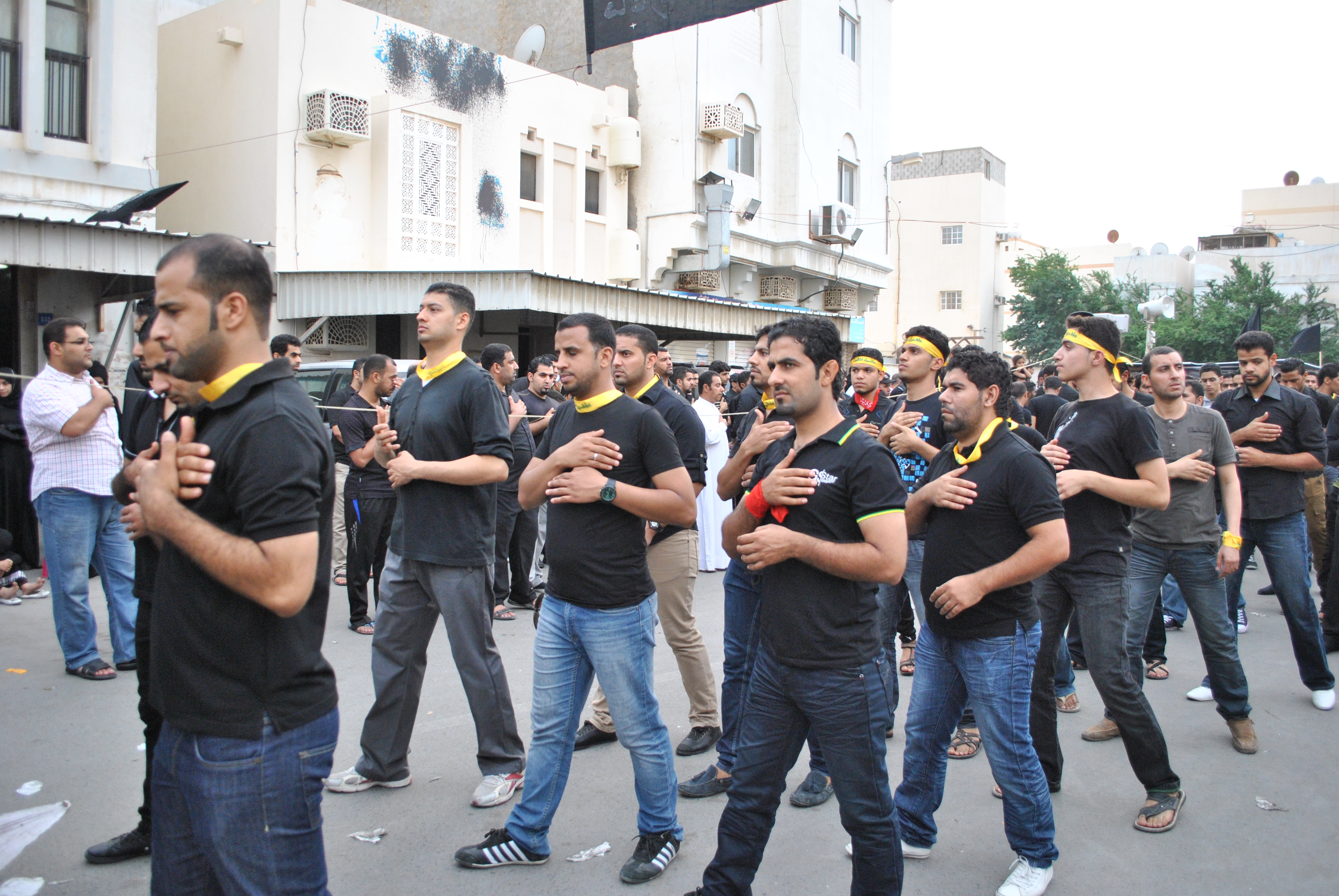 Bahraini Shia Muslims striking their chests to celebrate the martyrdom of Imam Hussain